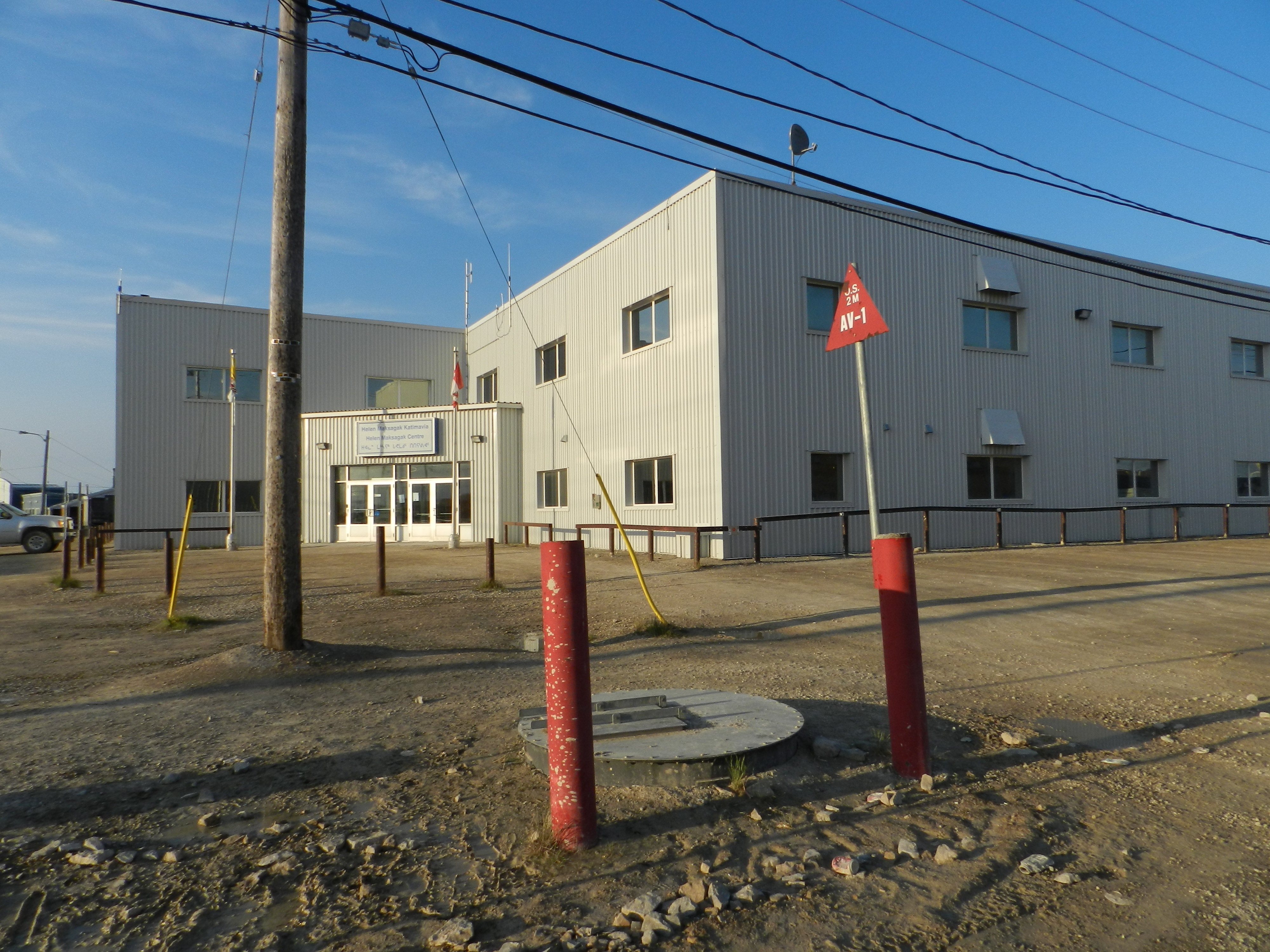 Helen Maksagak Centre, territorial government offices